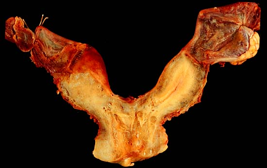 This uterus was removed in the course of excising an ovarian mucinous cystadenoma. The photo above shows the uterus and adnexa (less the initially excised left ovarian tumor) from the posterior aspect. The pale yellow right ovary is clearly seen on the upper right of the image. Both oviducts, visible at the top right and left, adjoin their respective separate cornua of this malformed uterus.